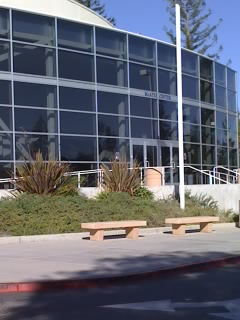 McAfee Performing Arts and Lecture Center at Saratoga High School.